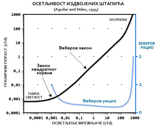 ОСЕТЉИВОСТ ШТАПИЋА